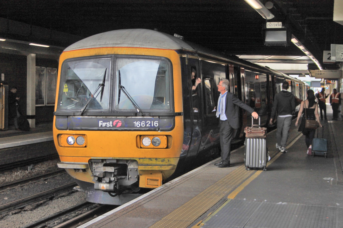 First Great Western's 'Turbo' 166216 at Gatwick Airport, ready for a journey to Reading.